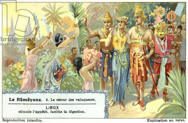 5226279 Scene from the Hindu epic poem the Ramayana: the return of the victors (chromolitho) by European School, (20th century); Private Collection; ( .: Scene from the Hindu epic poem the Ramayana: the return of the victors. Liebig card, early 20th century.); © Look and Learn; European, it is possible that some works by this artist may be protected by third party rights in some territories.